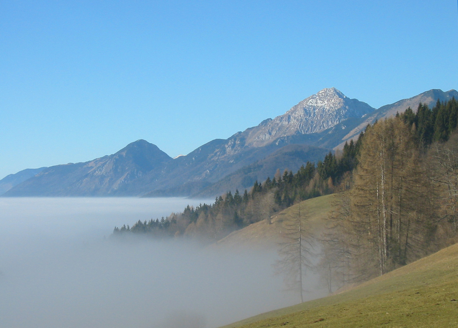 Slovenian mountains Kamniške alpe. The highest is Storžič. Below is fog.